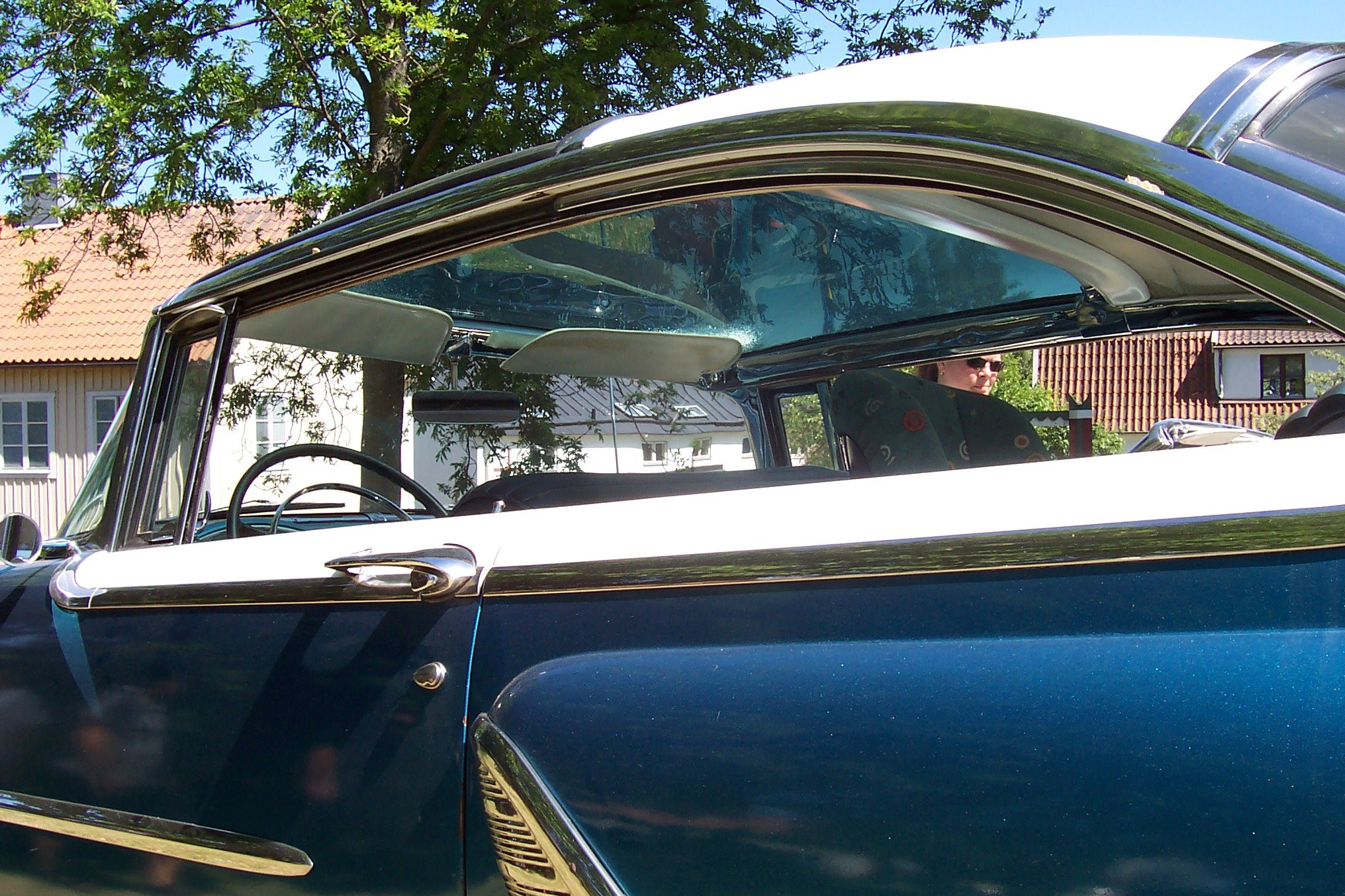 View trough the transparent plexiglass roof of a 1955 Mercury Montclair Sun Valley.